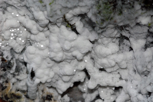 Athelia neuhoffii from Commanster, Belgium. If you think this is a different taxon, please contact James Lindsey.